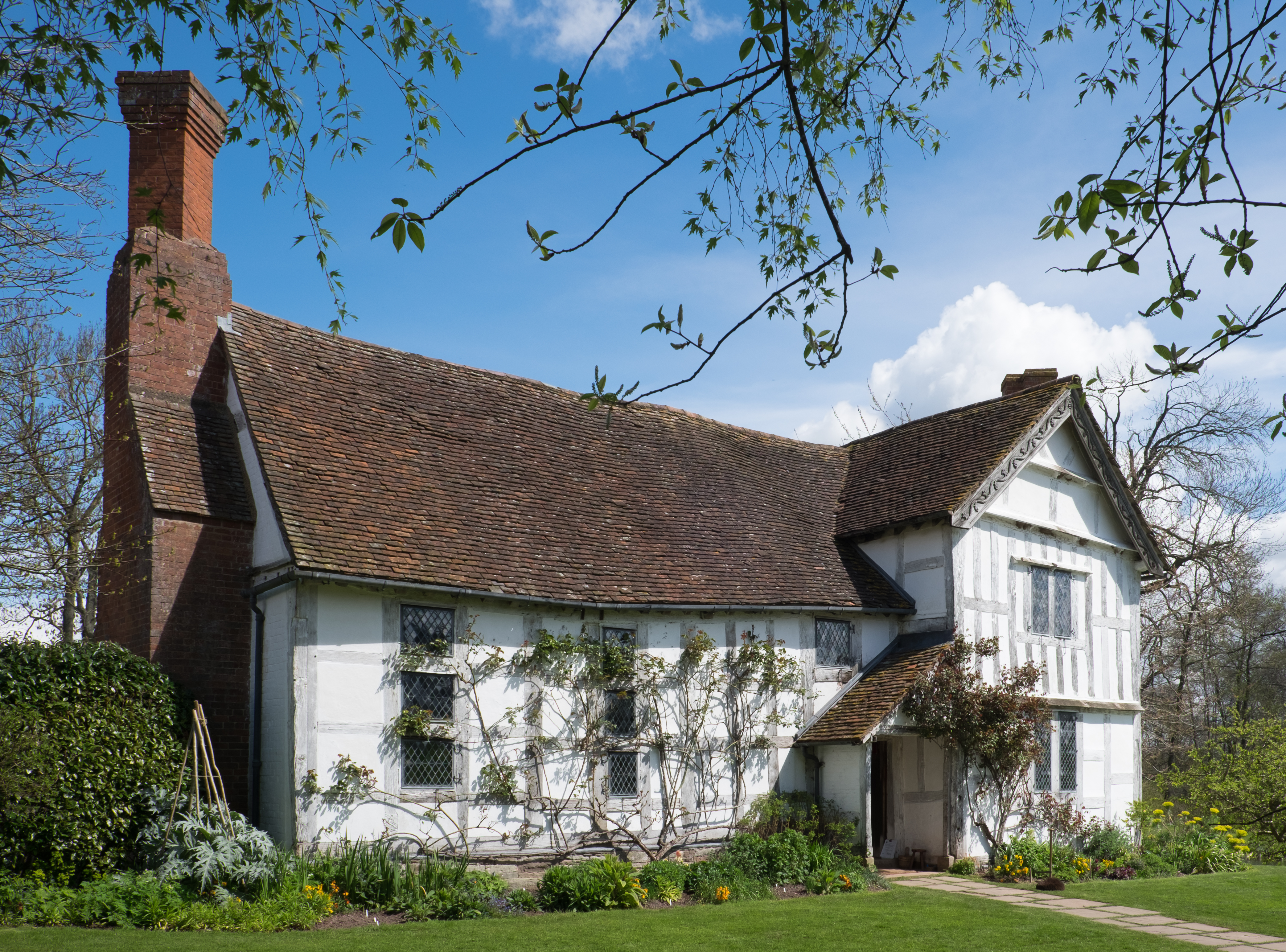 Late 14th or early 15th century manor house at Brockhampton Estate. A Grade I Listed Building.